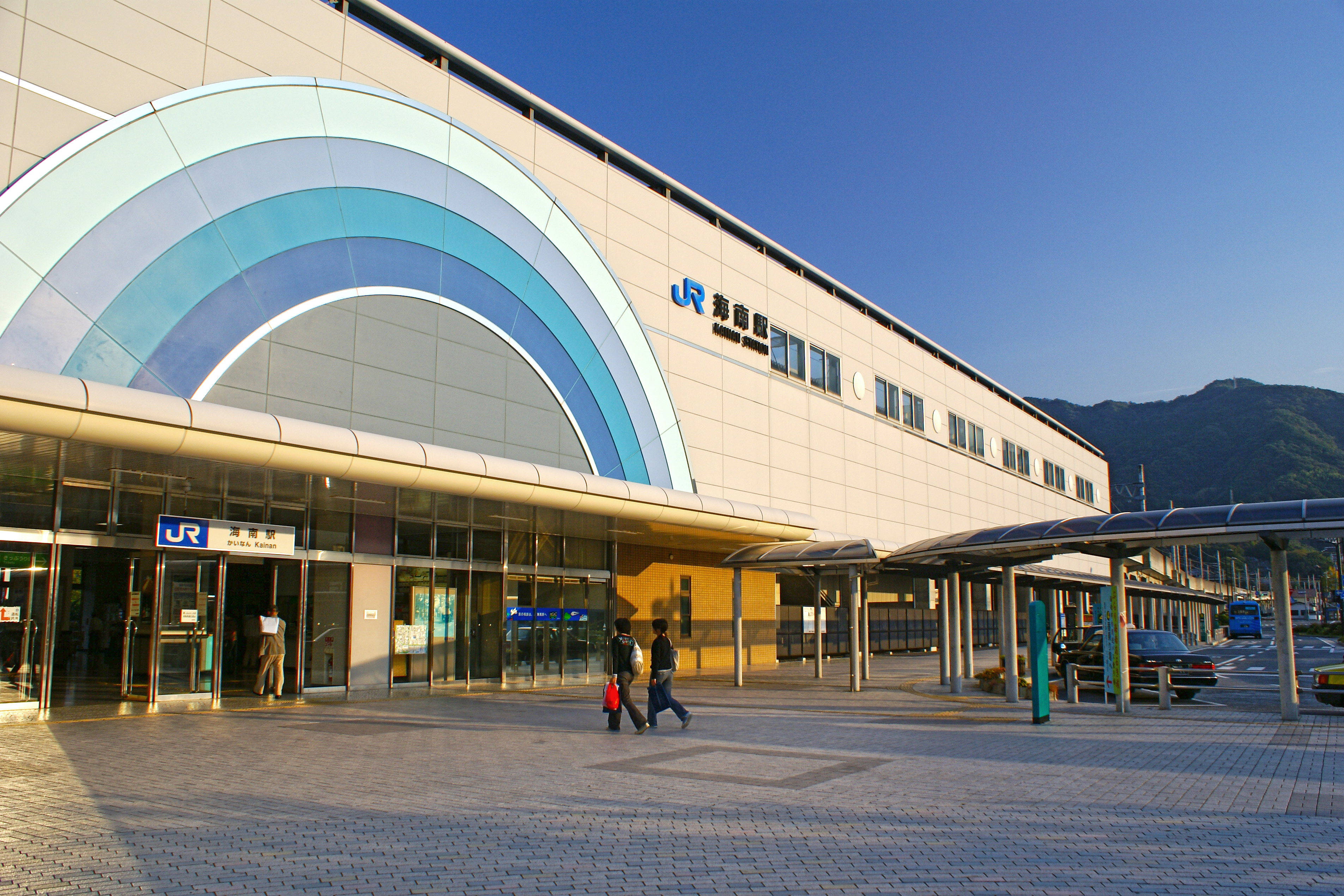 Kainan Station in Kainan, Wakayama prefecture, Japan